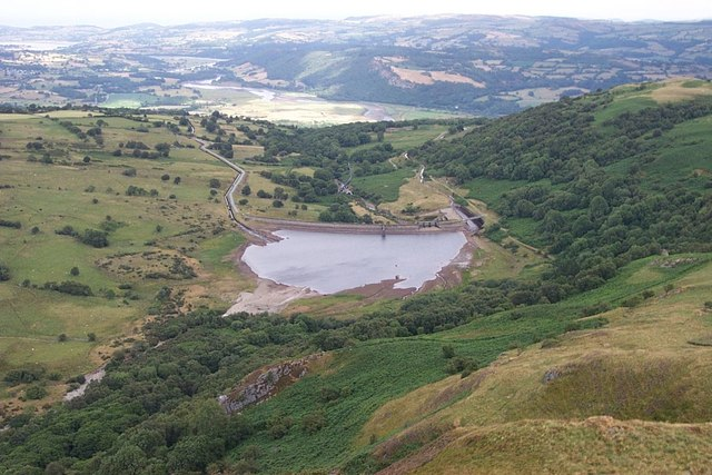 Llyn Coedty Reservoir from Moel Eilio. View of Llyn Coedty Reservoir taken at a height of about 500 metres from the upper slopes of Moel Eilio at SH 74905 66039.